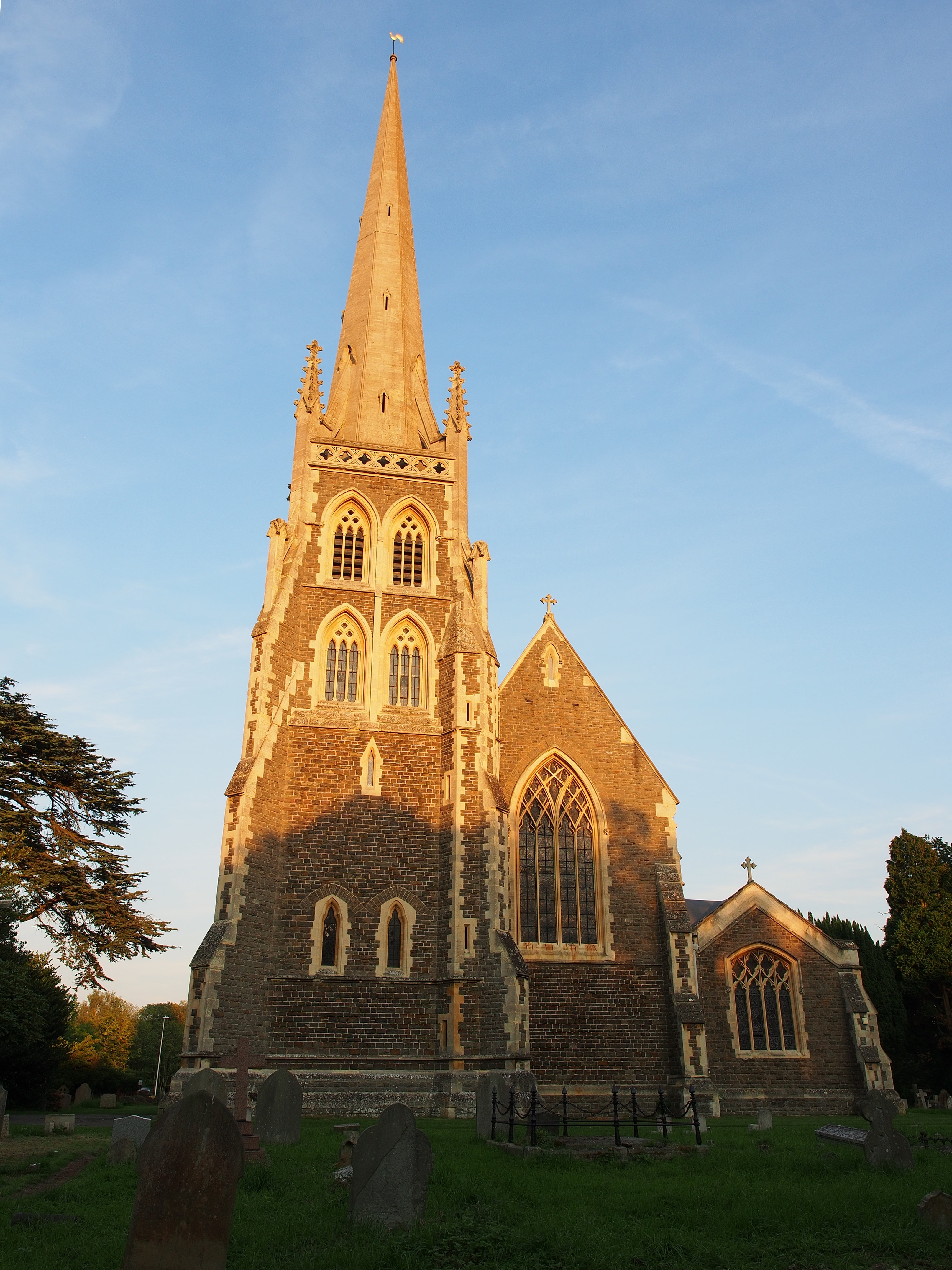 CHURCH OF ST PAUL Wikidata has entry Q17547409 with data related to this building.